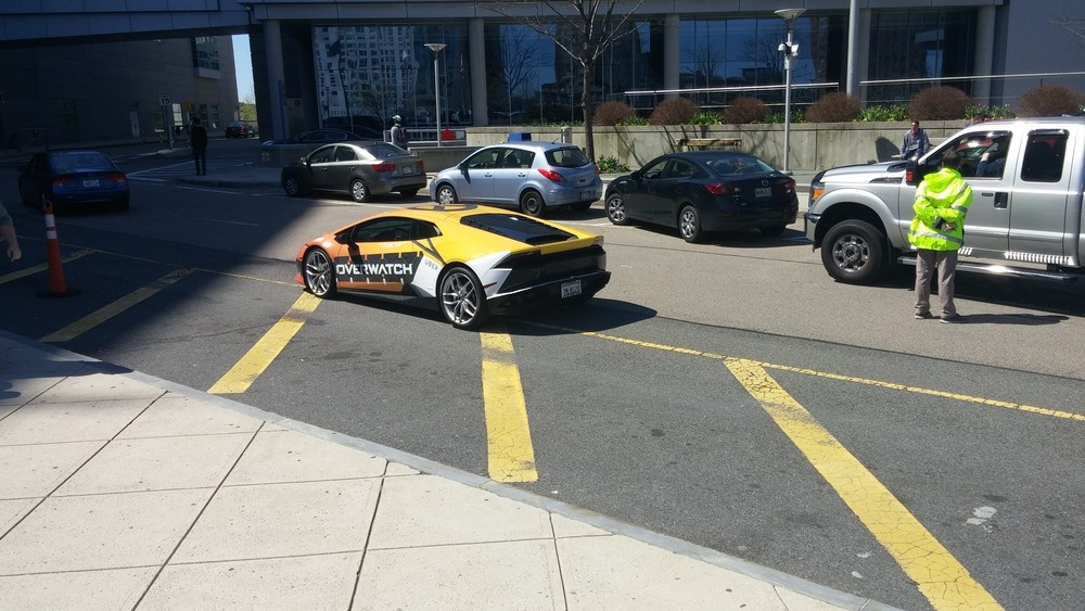 A Tracer themed Huracan outside of PAX East.